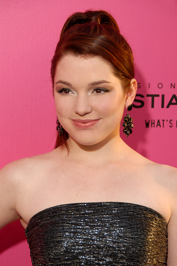 Jennifer Stone attending "The 6th Annual Hollywood Style Awards" Beverly Hills, CA on Oct. 10, 2009 - Photo by Glenn Francis of